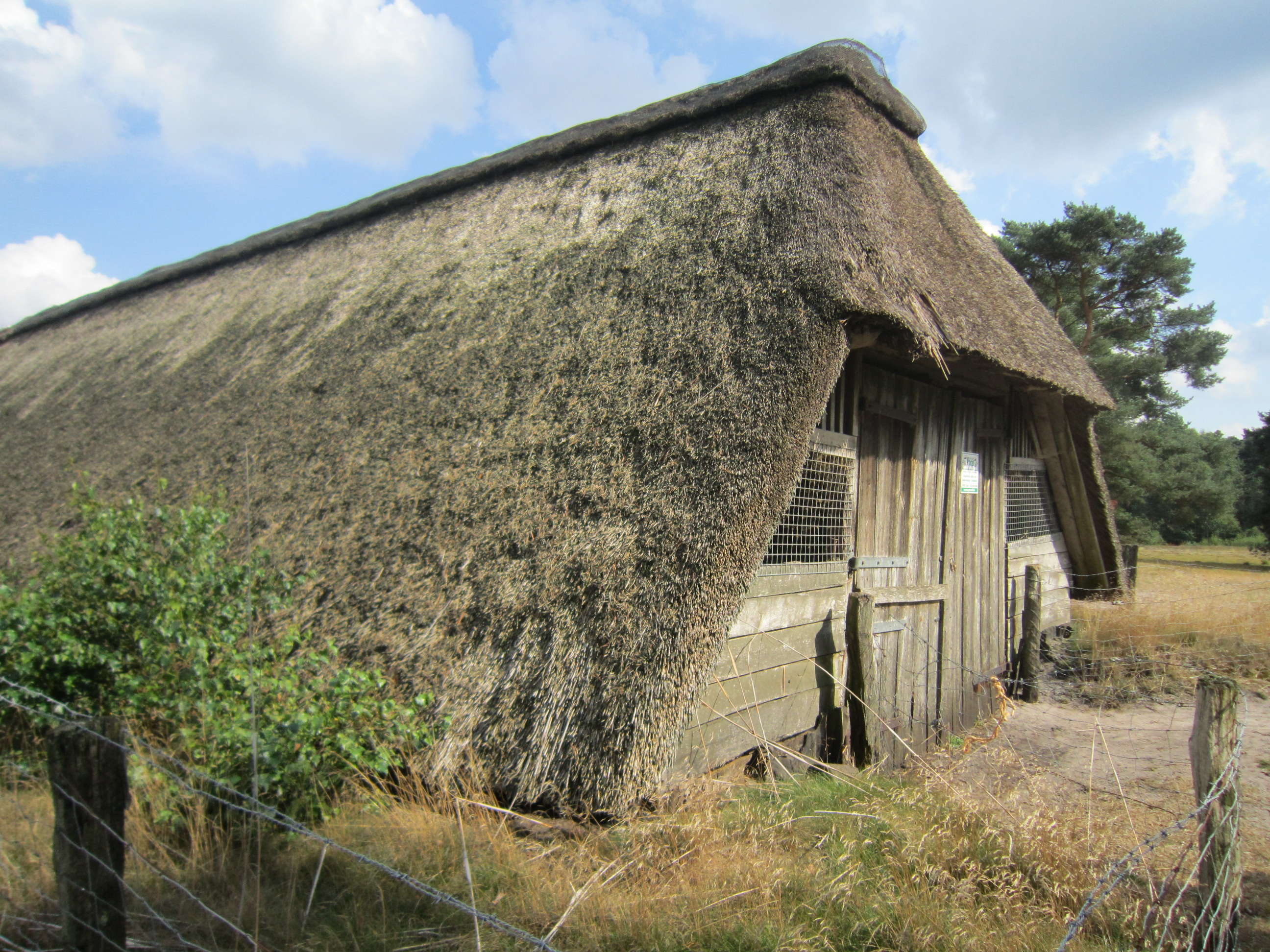 Sheep pen near the western bank of "Thülsfelder Talsperre"